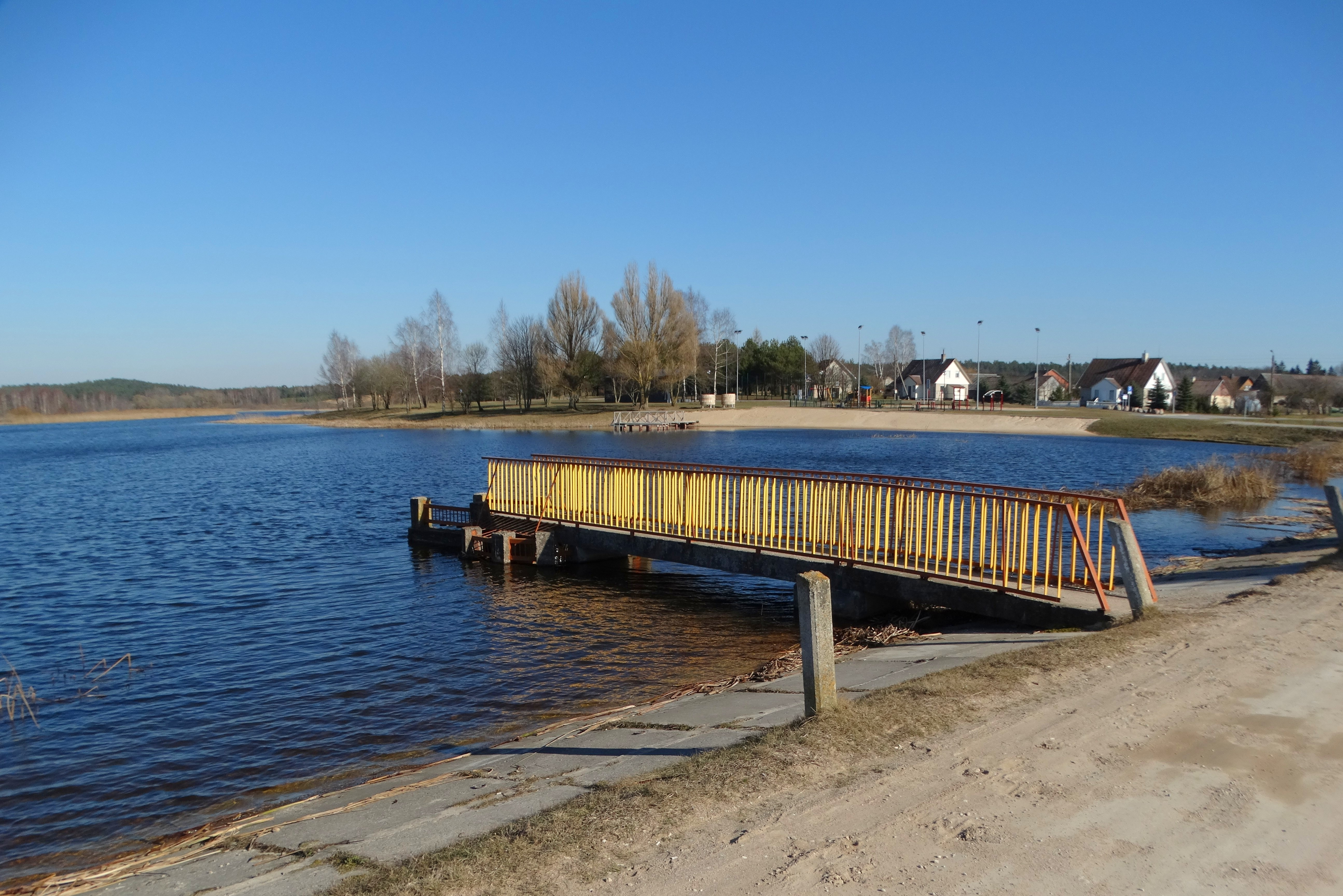 Pond, Šaukėnai, Kelmė district, Lithuania